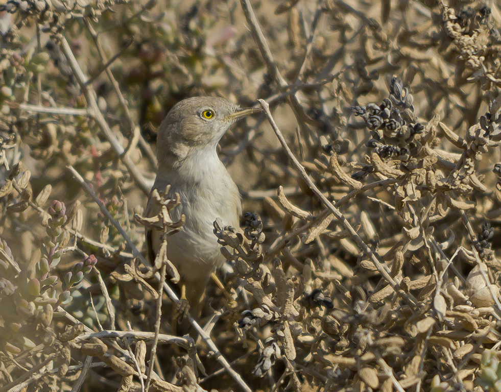 Feeding